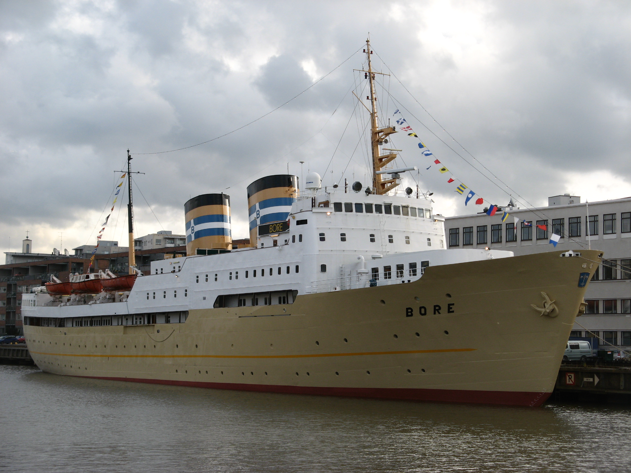 m/s Bore (launched 1960), former s/s Bore, s/s Borea, m/s Kristina Regina. Back in Turku with the original colours restored.